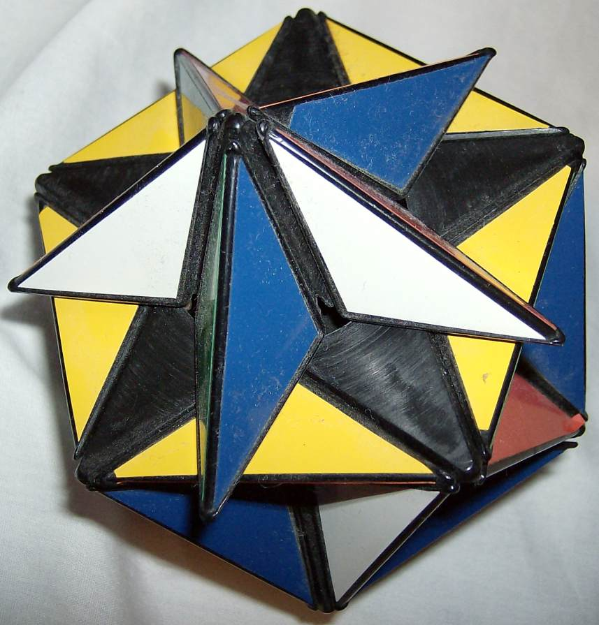 Took the photo myself.